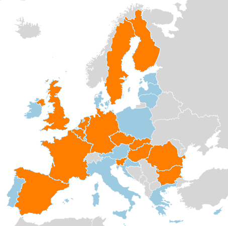 Nuclear energy in the European Union. i've added croatia and i have corrected northern ireland (uk)